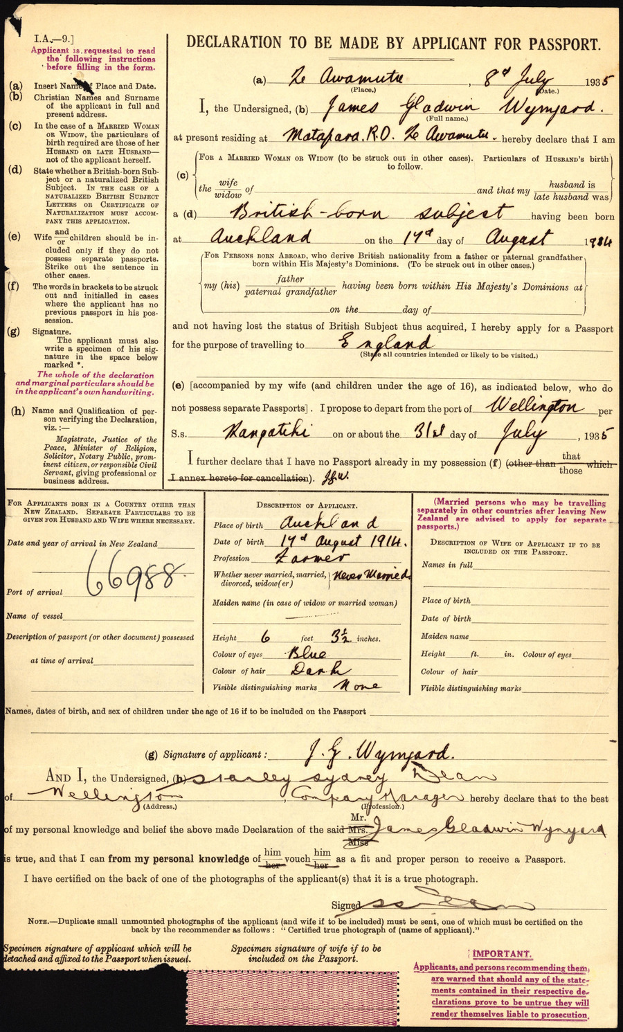 Archives New Zealand Reference: ACGO 8333 IA1 1350 / 15/11/59182